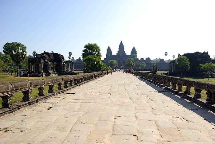 Main causeway of Angkor Wat